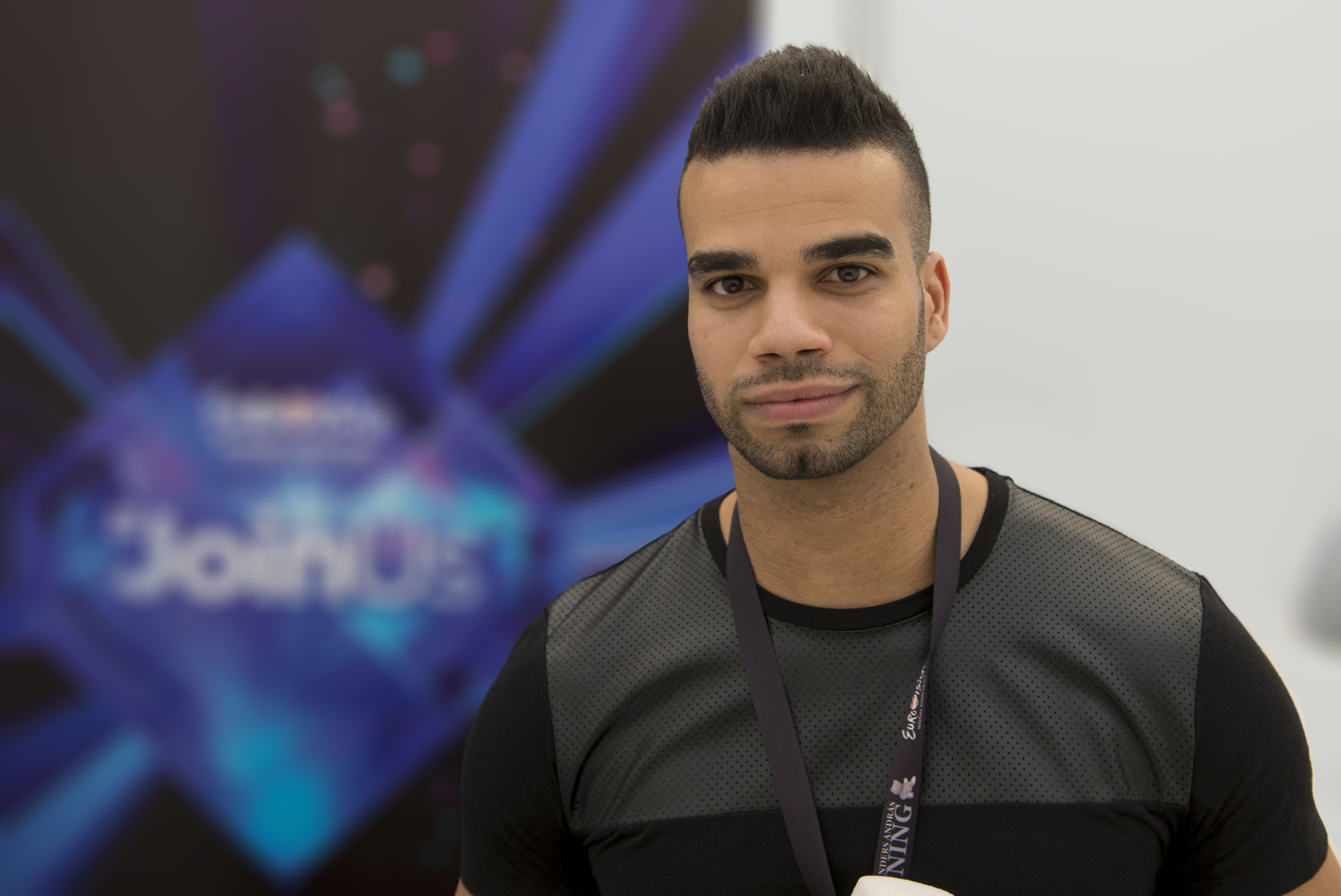 Kállay Saunders at a Meet & Greet during the Eurovision Song Contest 2014 Copenhagen. (Help translate this text)